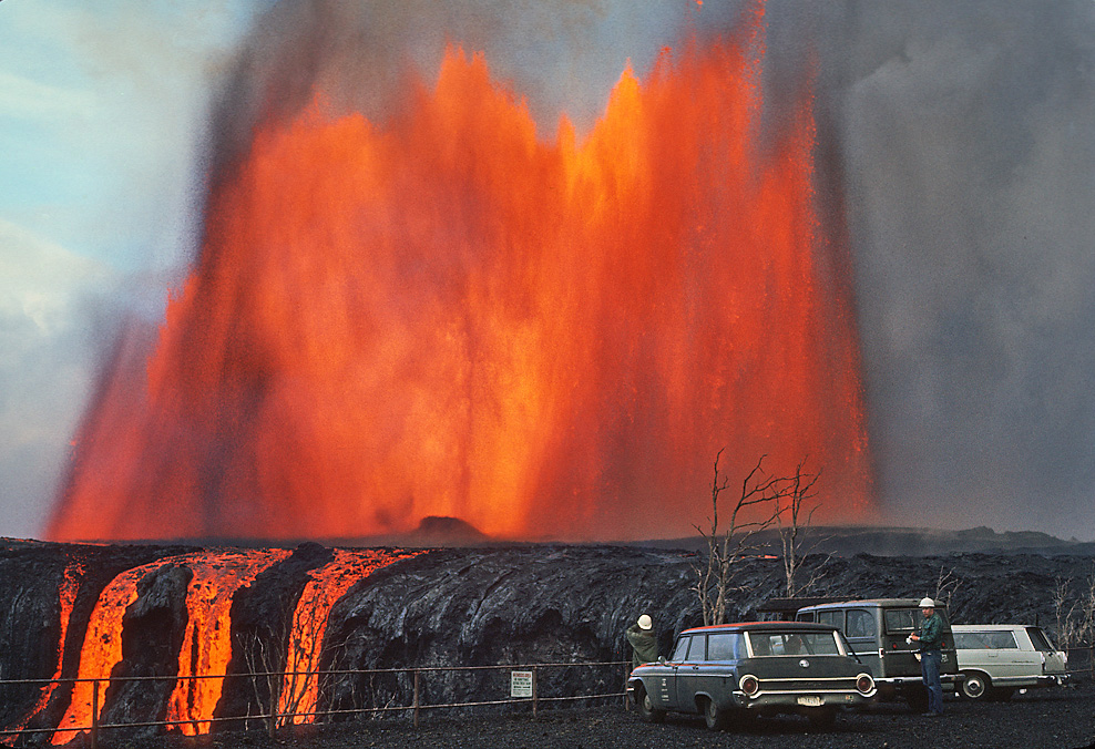 Lava fountain 300 metres (980 ft) high erupts from Mauna Ulu, feeding a lava flow that filled Alo'i crater.